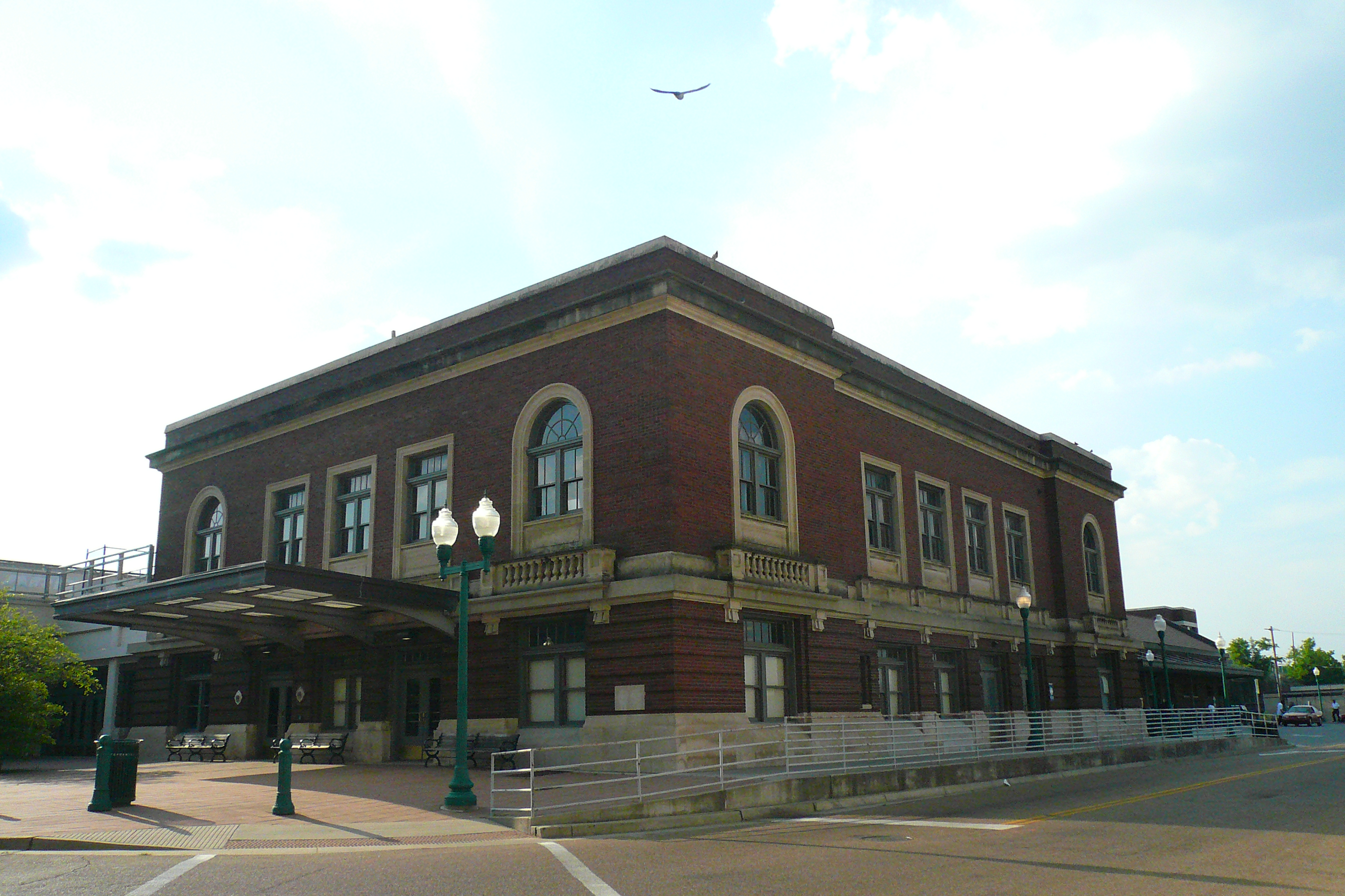 As seen from Capitol and Mill ST